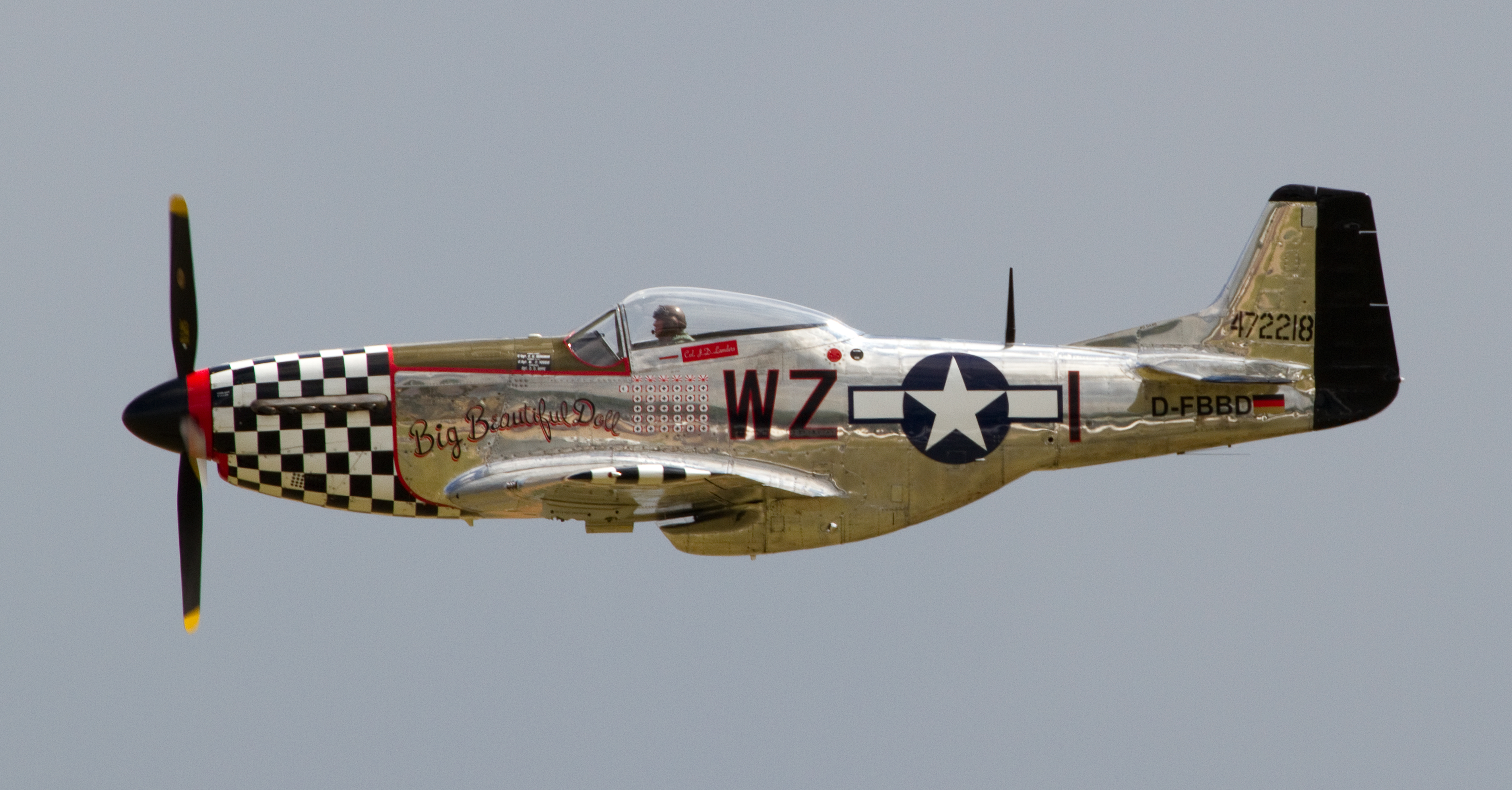 Unfortunately the 'Big Beautiful Doll' crashed the day after this photo was taken